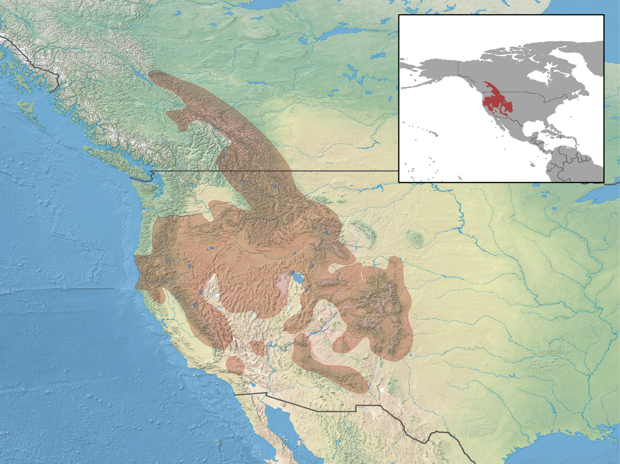 geographic distribution of Callospermophilus lateralis, syn. Spermophilus lateralis